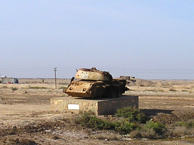 Exploded tank, remains as symbol of Iran-Iraq war (1980-1988).